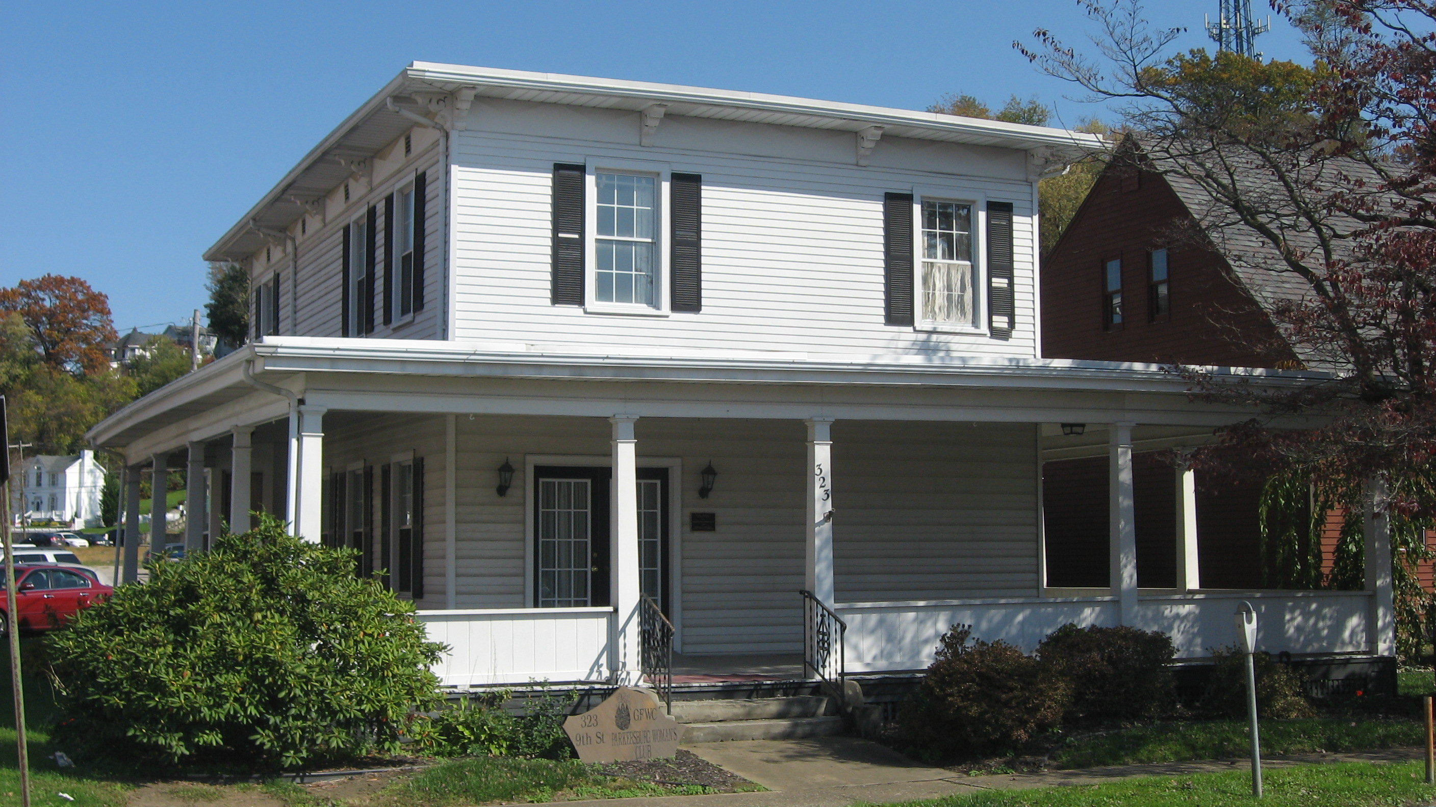 Front of the Parkersburg Women's Club, located at 323 Ninth Street in Parkersburg, West Virginia, United States. Built in 1860, it is listed on the National Register of Historic Places, and it is part of a Register-listed historic district, the Avery Street Historic District.